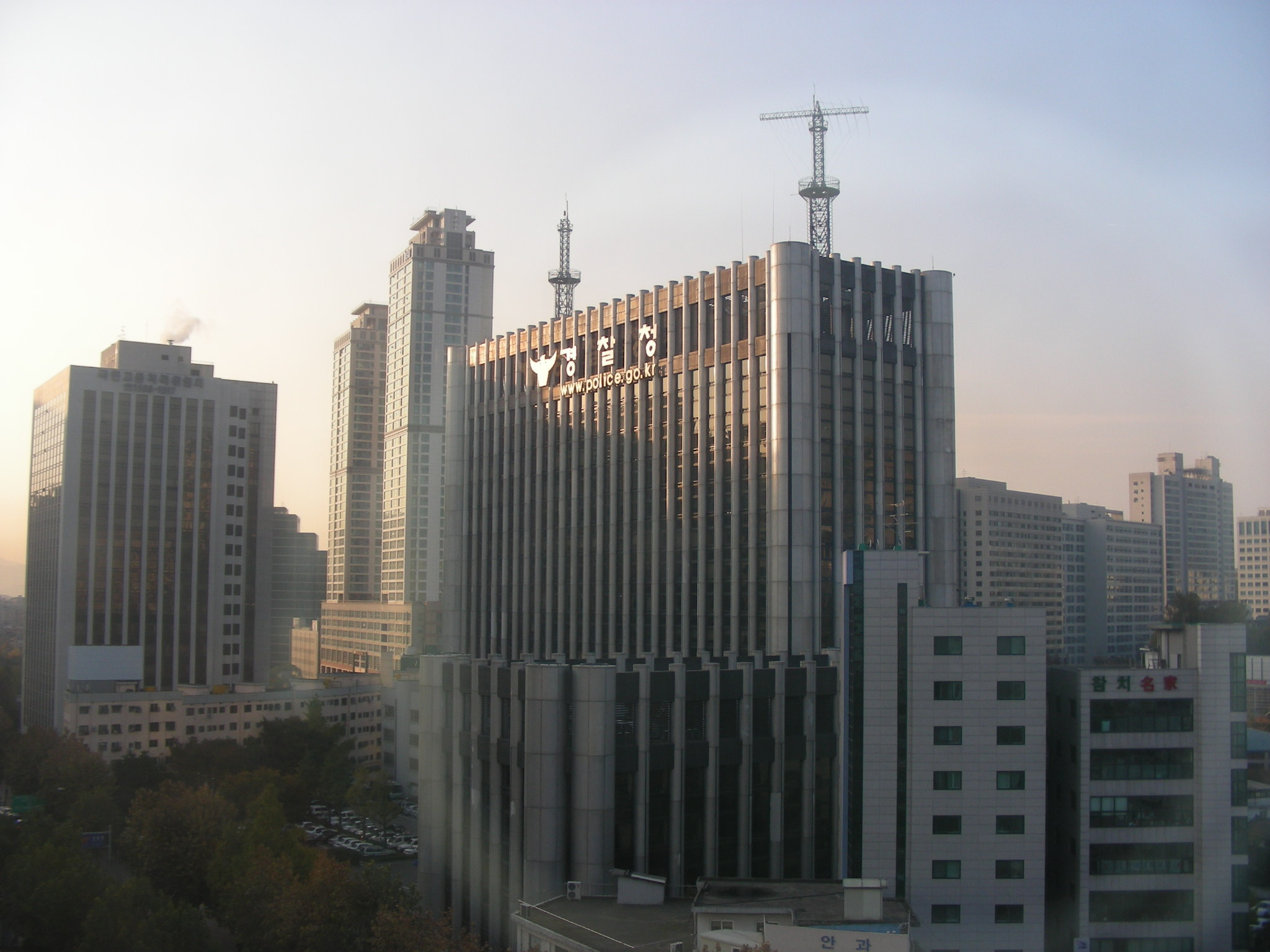 Korean National Police Agency Building in Seodaemun-gu, Seoul, South Korea.DSCN0047